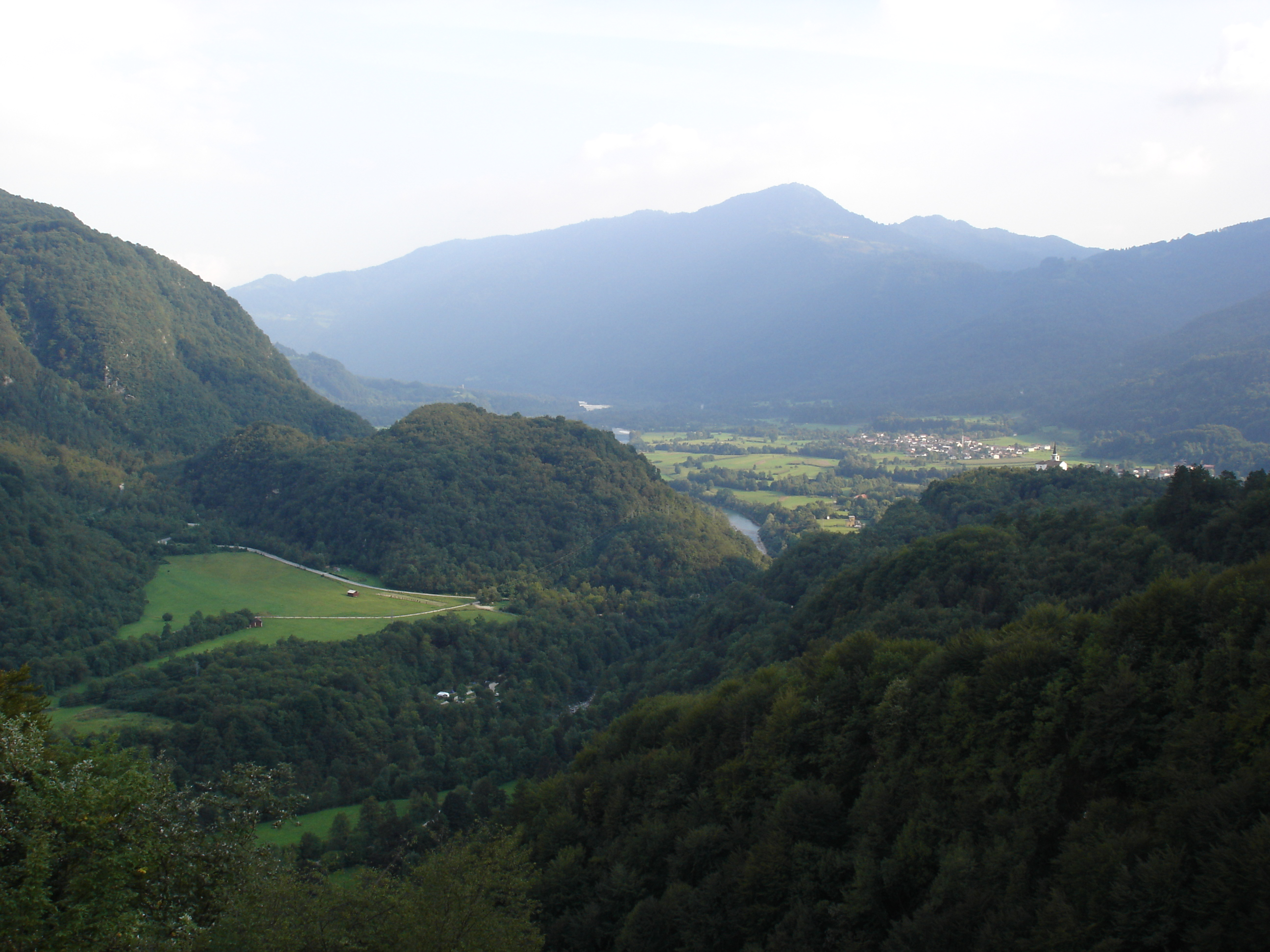 Kobarid and its surroundings.